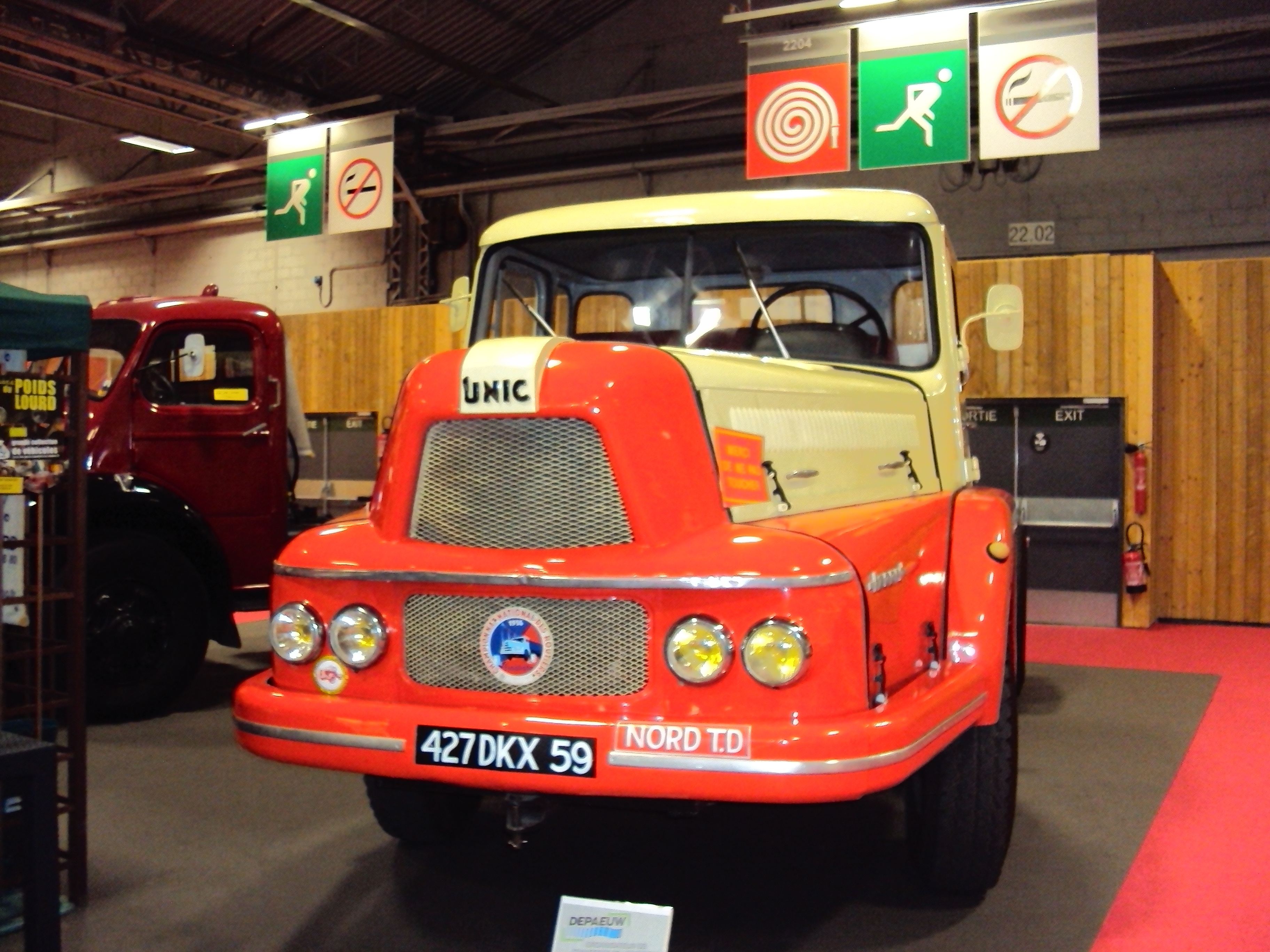 A 1962 UNIC ZU 122T at the stand of "Le Musée du Poids Lourd" - "Mondial de l'Automobile de Paris 2014".